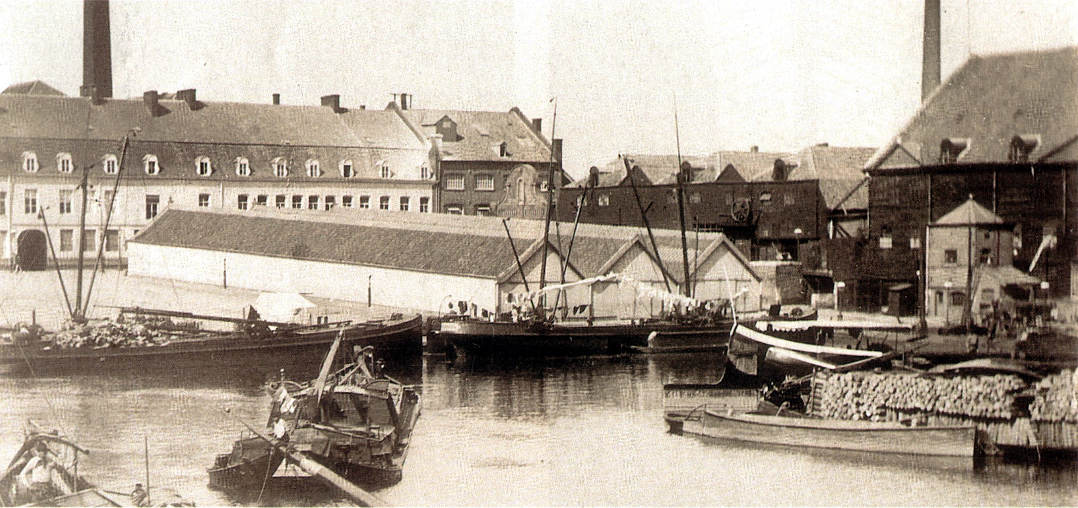 Maastricht, the Netherlands. View of Bassin (before 1905) with early industrial buildings of Sphinx potteries. To the right an earlier version of Timmerfabriek.